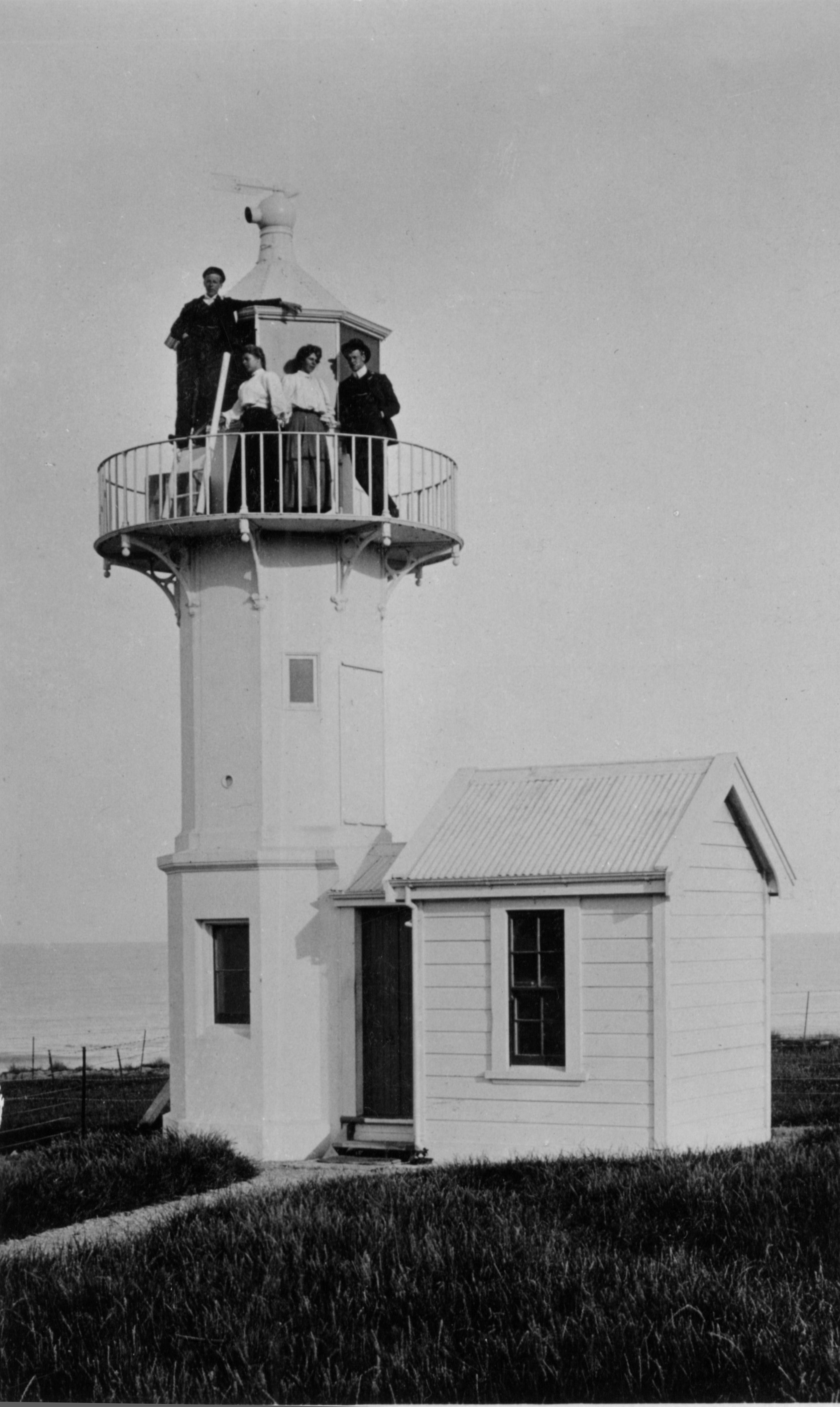 Light house at Jack's Point, Timaru, NZ (approx 1904) This cast iron lighthouse had been previously errected at Somes Island in November 1865. It was a 14-foot high prefabricated tower that imported from England. Its operation began on 17 February 1866 and lasted until a new lighthouse had been built and began operation on 21 February 1900. The tower was subsequently decommissioned and and taken to Jack’s Point, Timaru where it is still today.